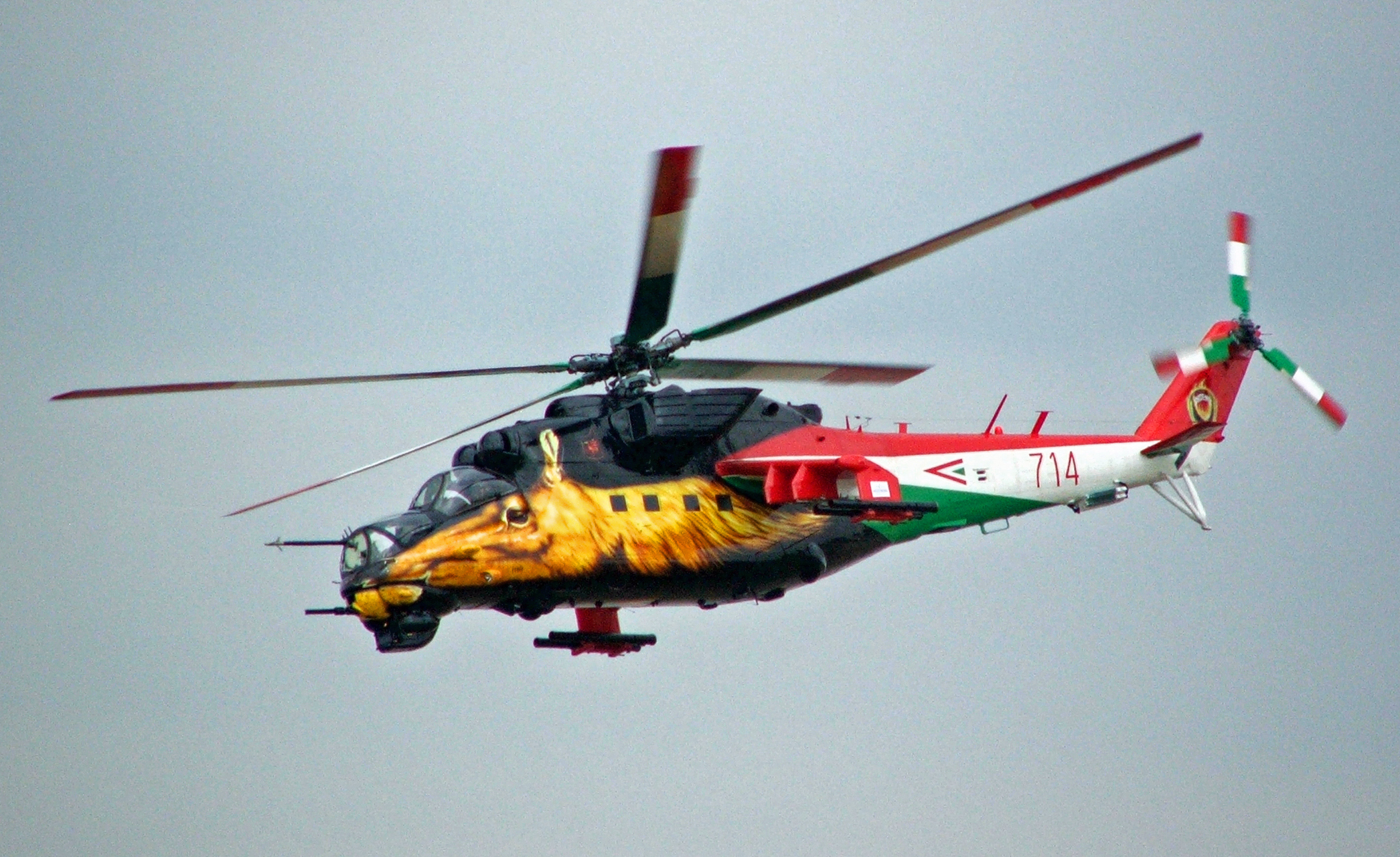 Hungarian Mi-24 occasional painting on the Kecskemét airshow. 2007 Kecskemét AFB, Hungary.